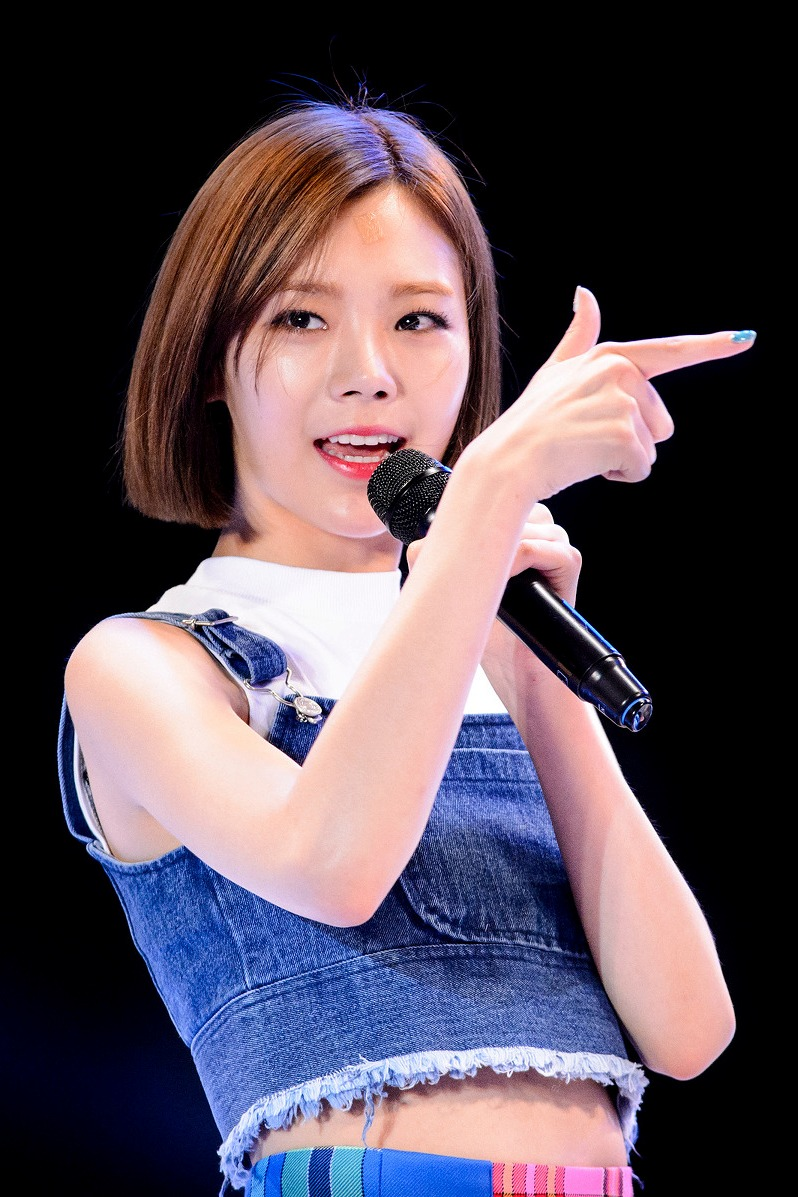 Lizzy performing with Orange Caramel in Suwon (crop of original photo)